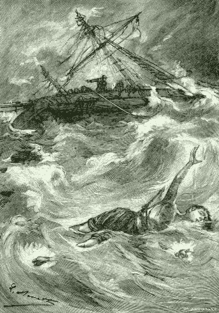 Original ilustration from Léon Benett to novel J. Verne "Two Years' Vacation".